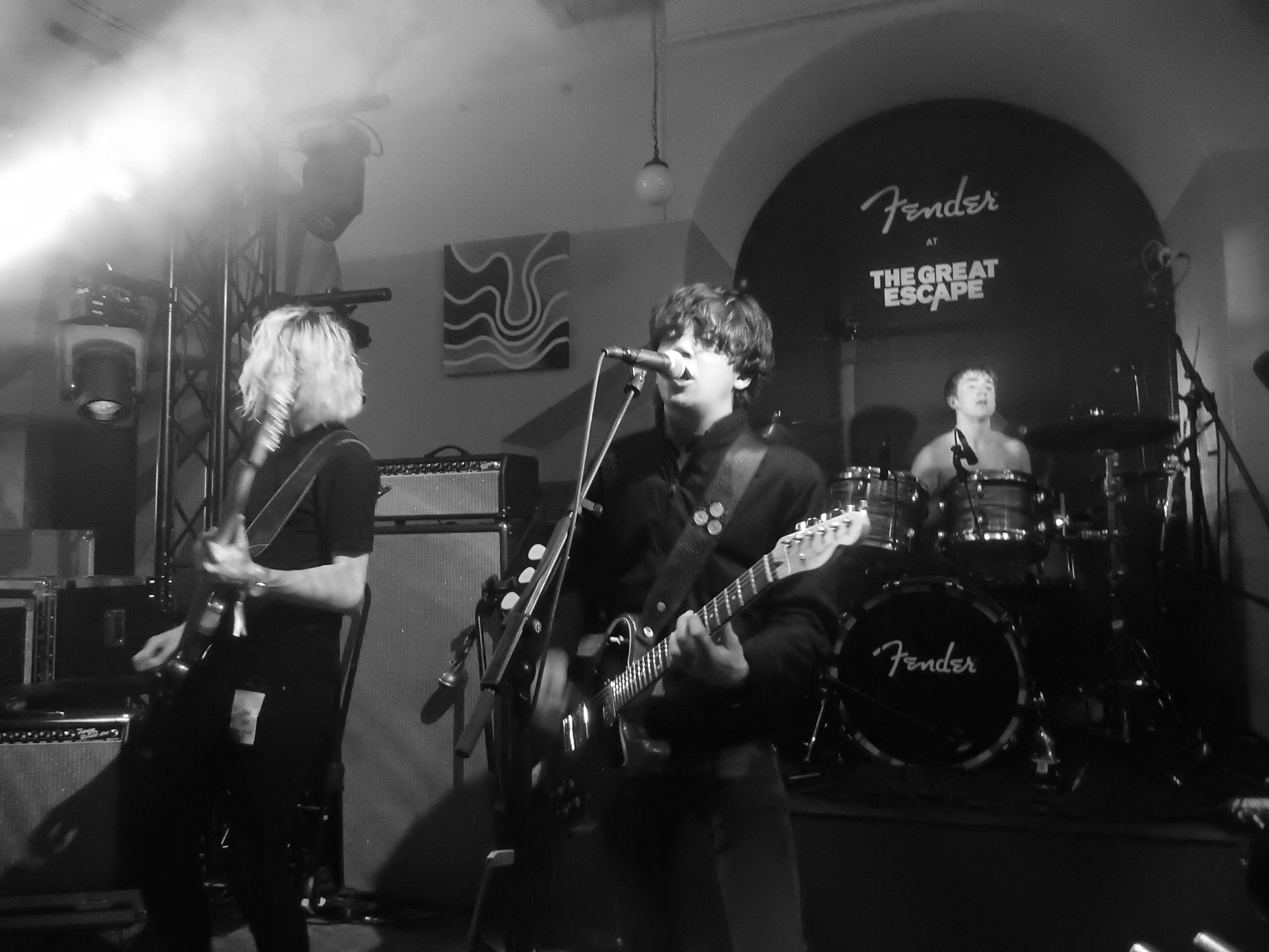 Pretty Vicious, Patterns, Brighton (Great Escape 2018)